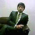 The Late Prince Takamado.Taken with my cameraphone in a meeting several hours before the Prince passed away playing squash. May he rest in peace.